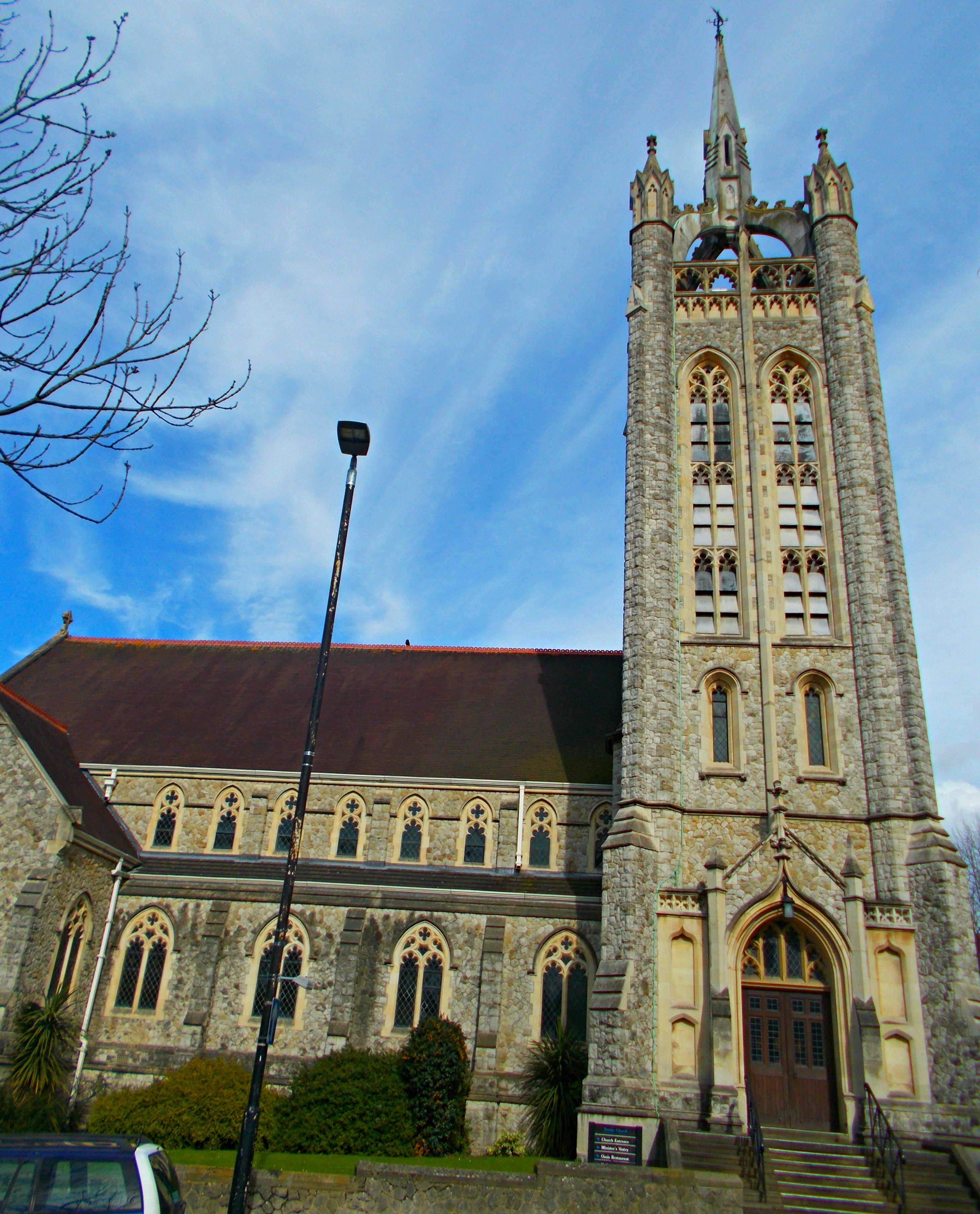 Sutton is a commuter town within Greater London, 10 miles from central London.